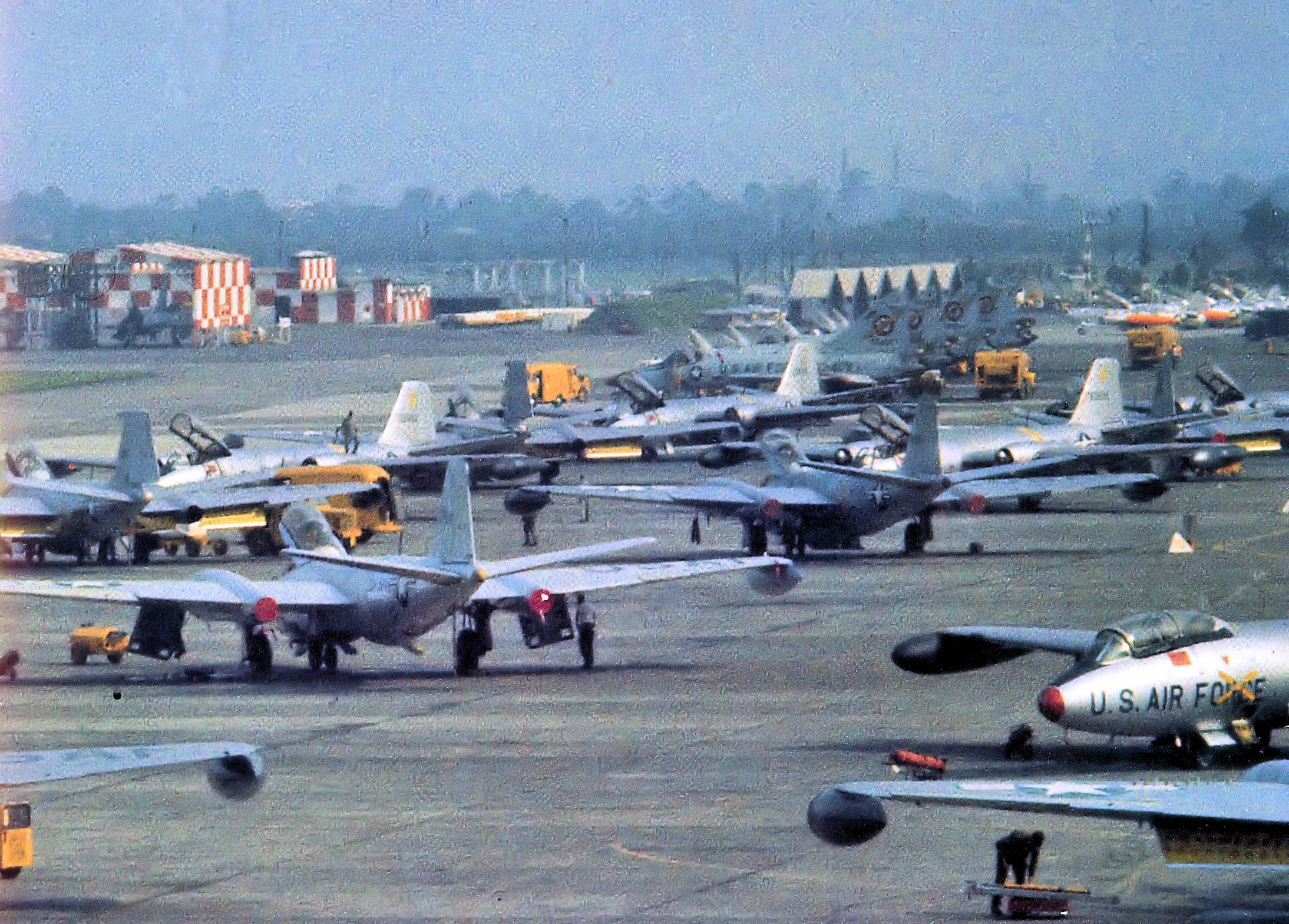 3d Bombardment Group B-57s Johnson AB Japan 1957